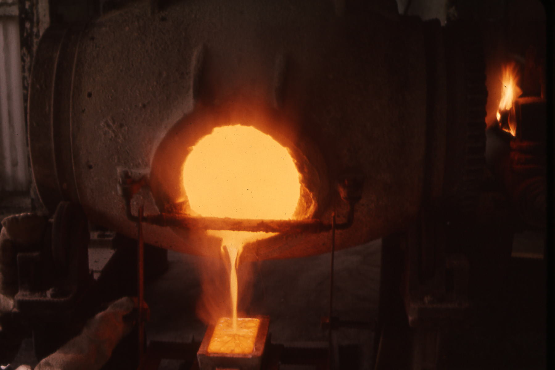 Pouring molten gold into ingot mold at La Luz Mine The town of Siuna, Nicaragua was the site of La Luz Mining company, which was active from 1936 to 1968. There was migration from other areas of the country to work in the gold mine during these years, including people from the coast and indigenous groups. The mine was shut down in 1968 due to damage of the Ei River Hydro Electric Plant.[1]